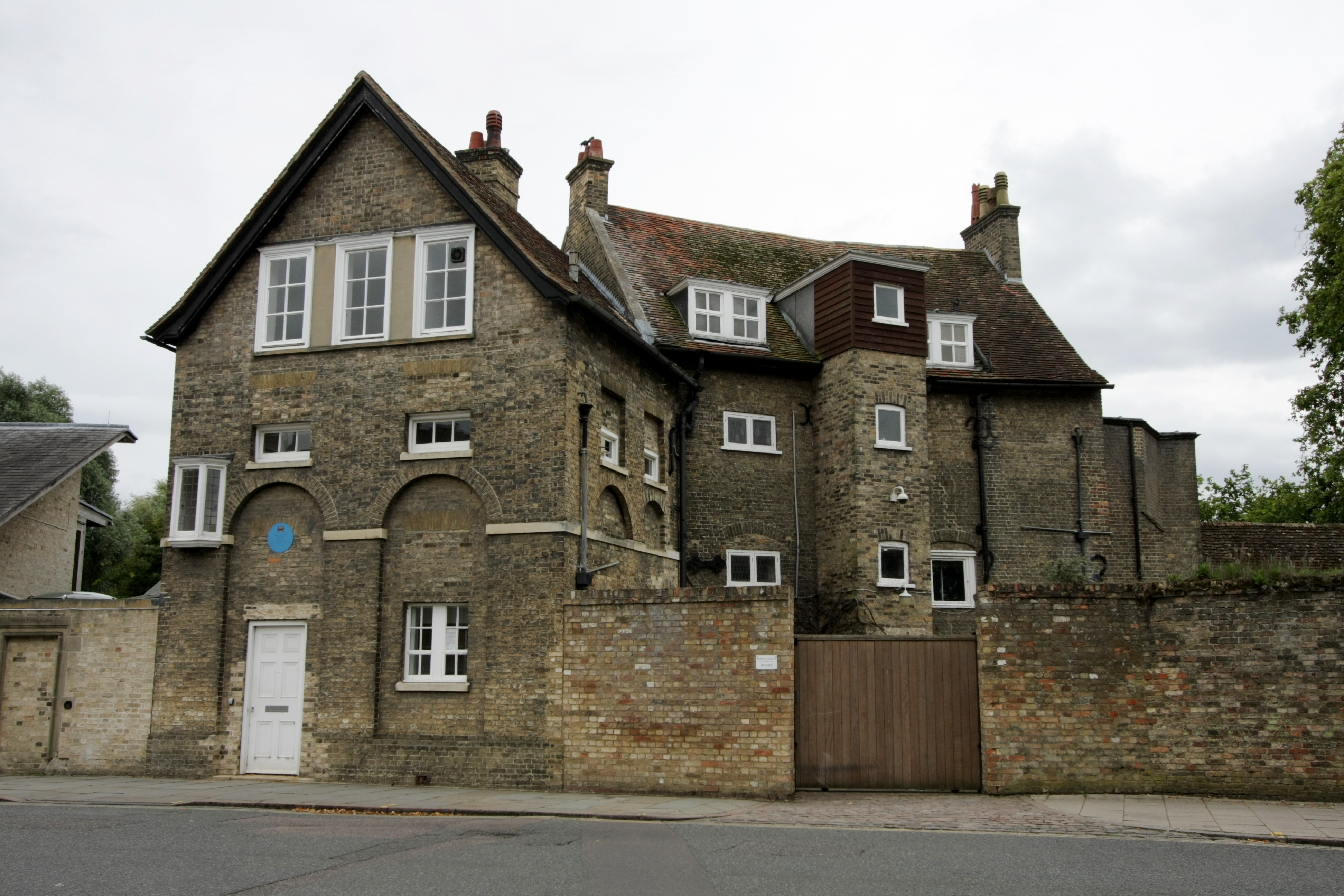 The Old Granary, Darwin College, Silver Street, Cambridge. The blue plaque commemorates the English educationalist Henry Morris (1889–1961), who lived here until 1946.